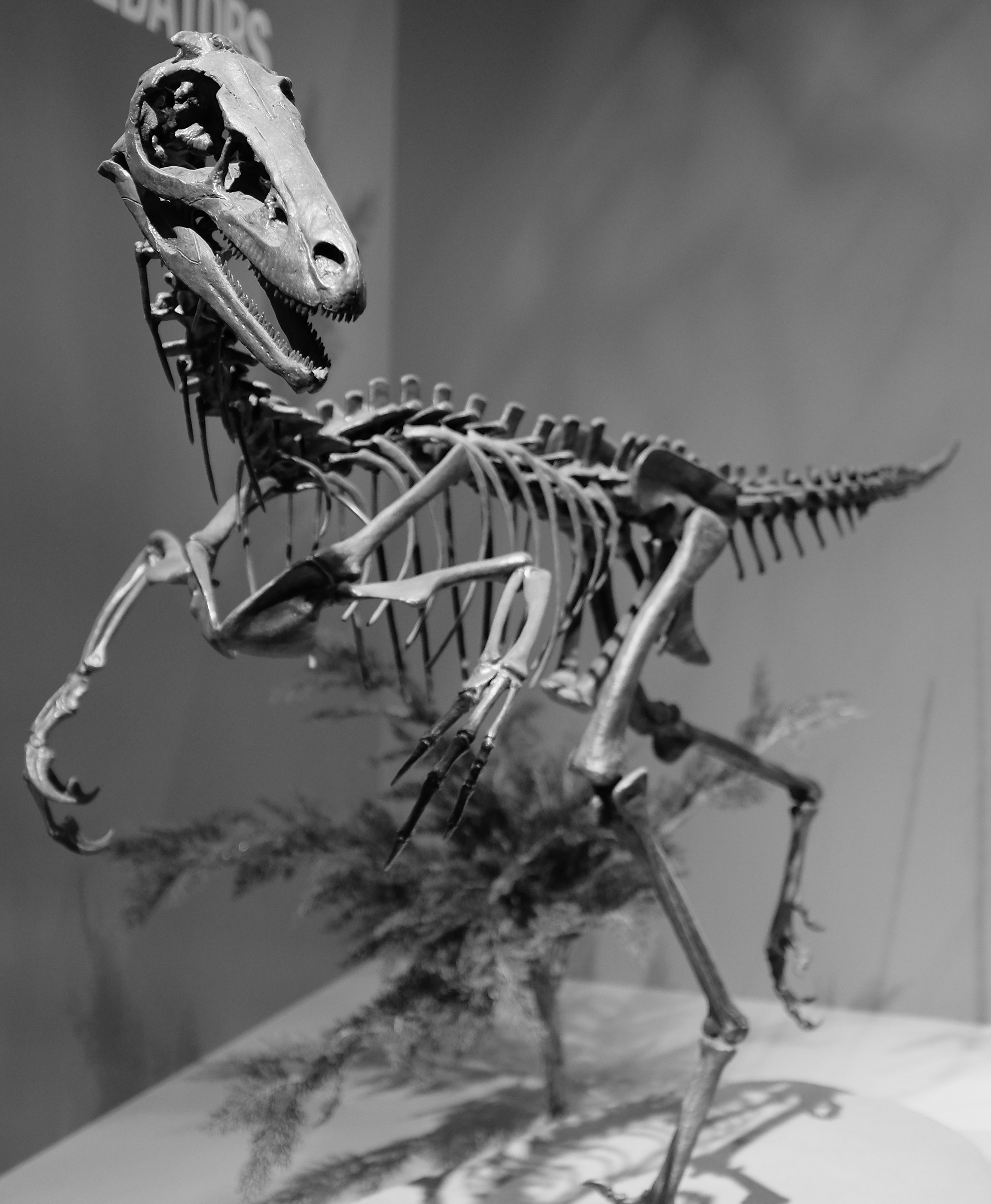 Reconstructed skeleton of unnamed troodont species from the Prince Creek Formation, non-cranial material based on related species.